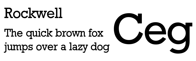 english pangram in typeface Rockwell